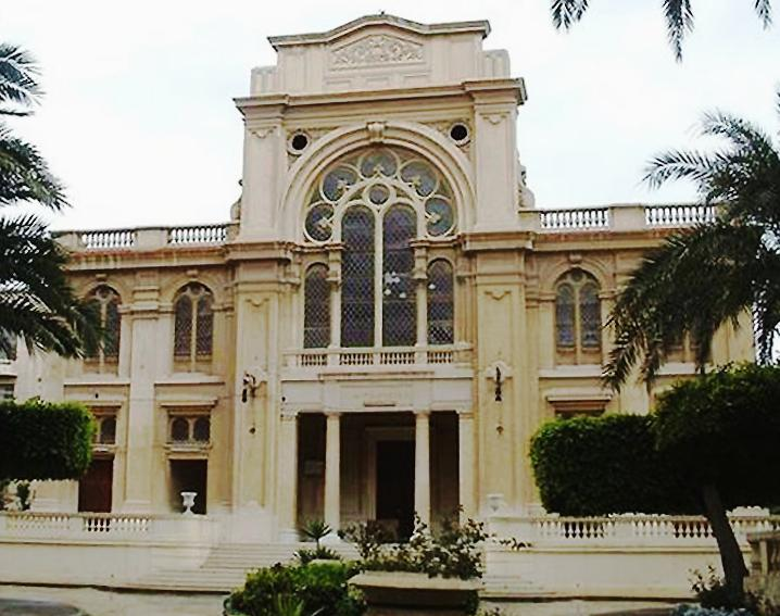 synagogue in Alexandria